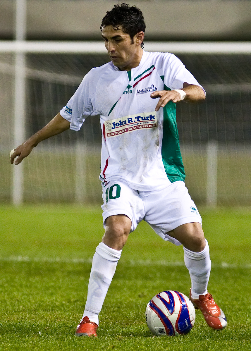 Ali Abbas Al-Hilfi playing for Marconi in the NSW Premier League.